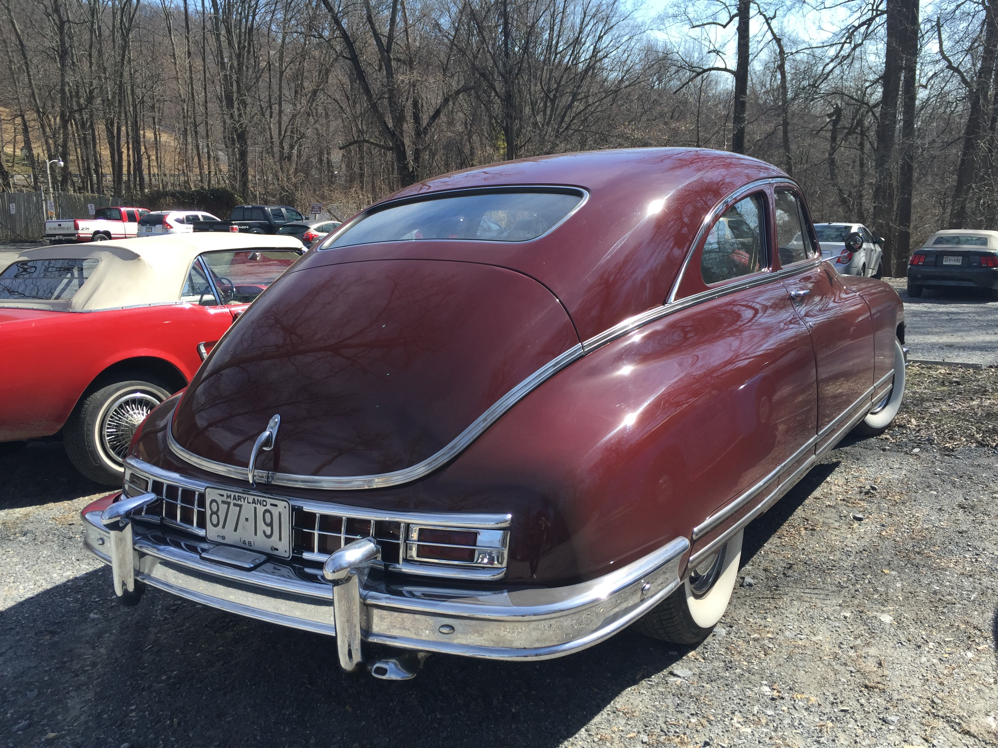 1948 Packard Custom Eight Club Sedan (the "club" stood for the two-door body and these used a fastback style) model 2244. Photographed at the Old South Mountain Inn in Maryland (6132 Old National Pike Boonsboro, MD 21713) during the AACA Sugarloaf Mountain Chapter's 2016 Heater Tour.